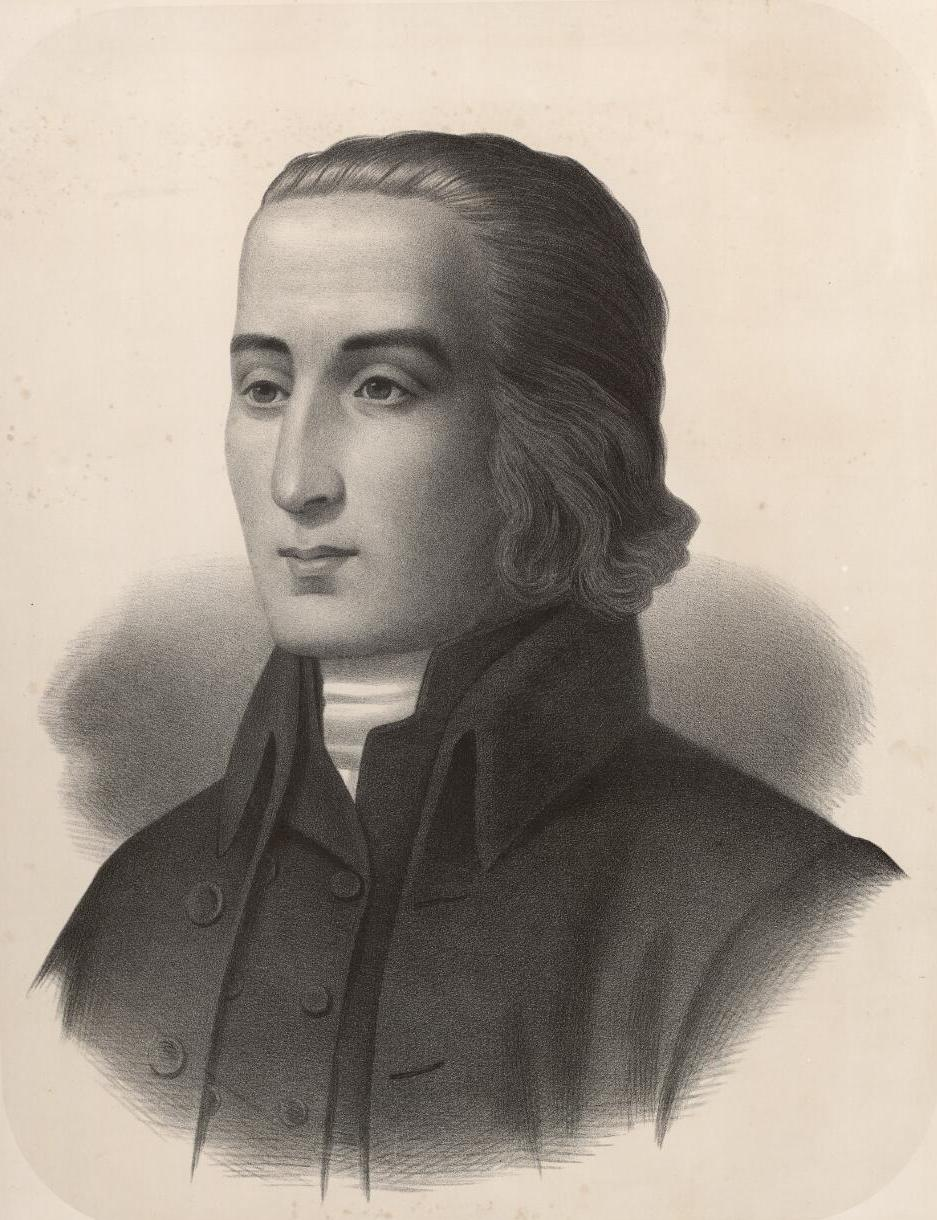 A portrait from the Welsh Portrait Collection at the National Library of Wales. Depicted person: William Williams Pantycelyn – Welsh hymnwriter